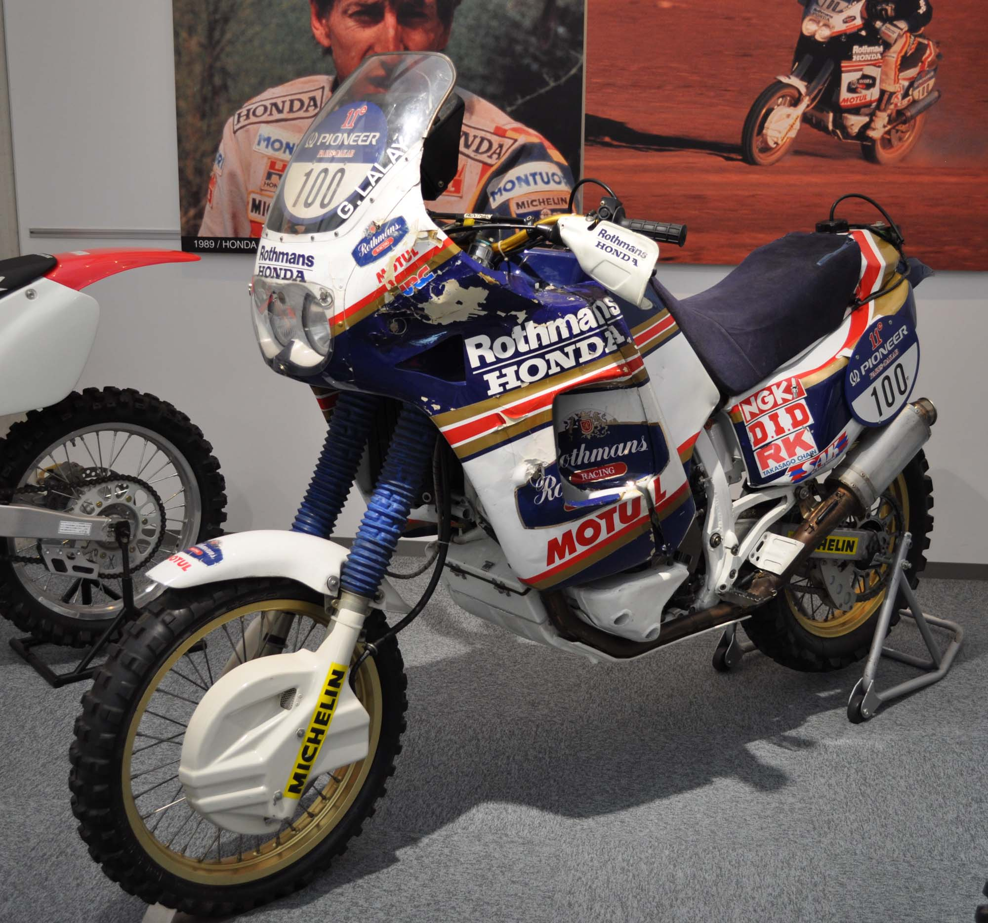 Honda NXR750 (Gilles Lalay, 1989 Paris-Dakar Rally)